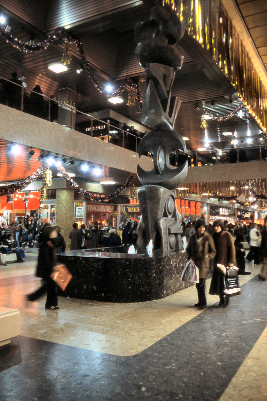 Totem, a 9.45-metre-high (31.0 ft) sculpture by the Czech artist Franta Belsky, installed in 1977 the Arndale Centre, Manchester